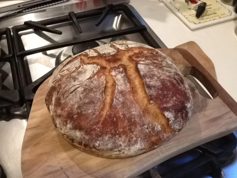 I took this picture of a loaf of bread after baking it using the recipe popularized by Jim Lahey for 'no-knead' bread. It shows the load of bread fresh out of my oven.